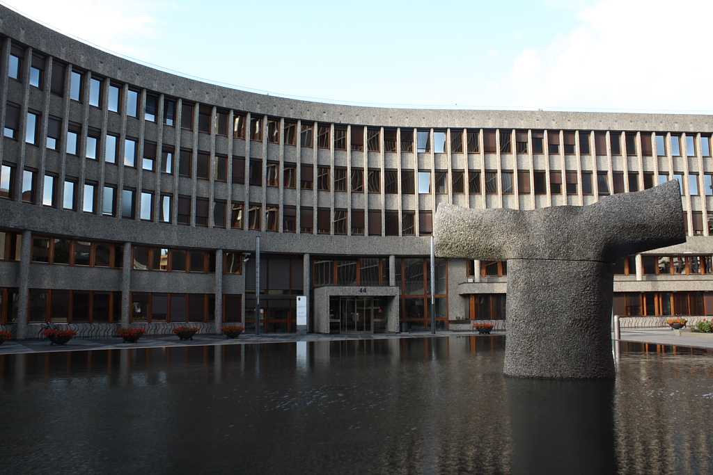 The following Ministries are located at Akersgata 44: Ministry of Education and Research.